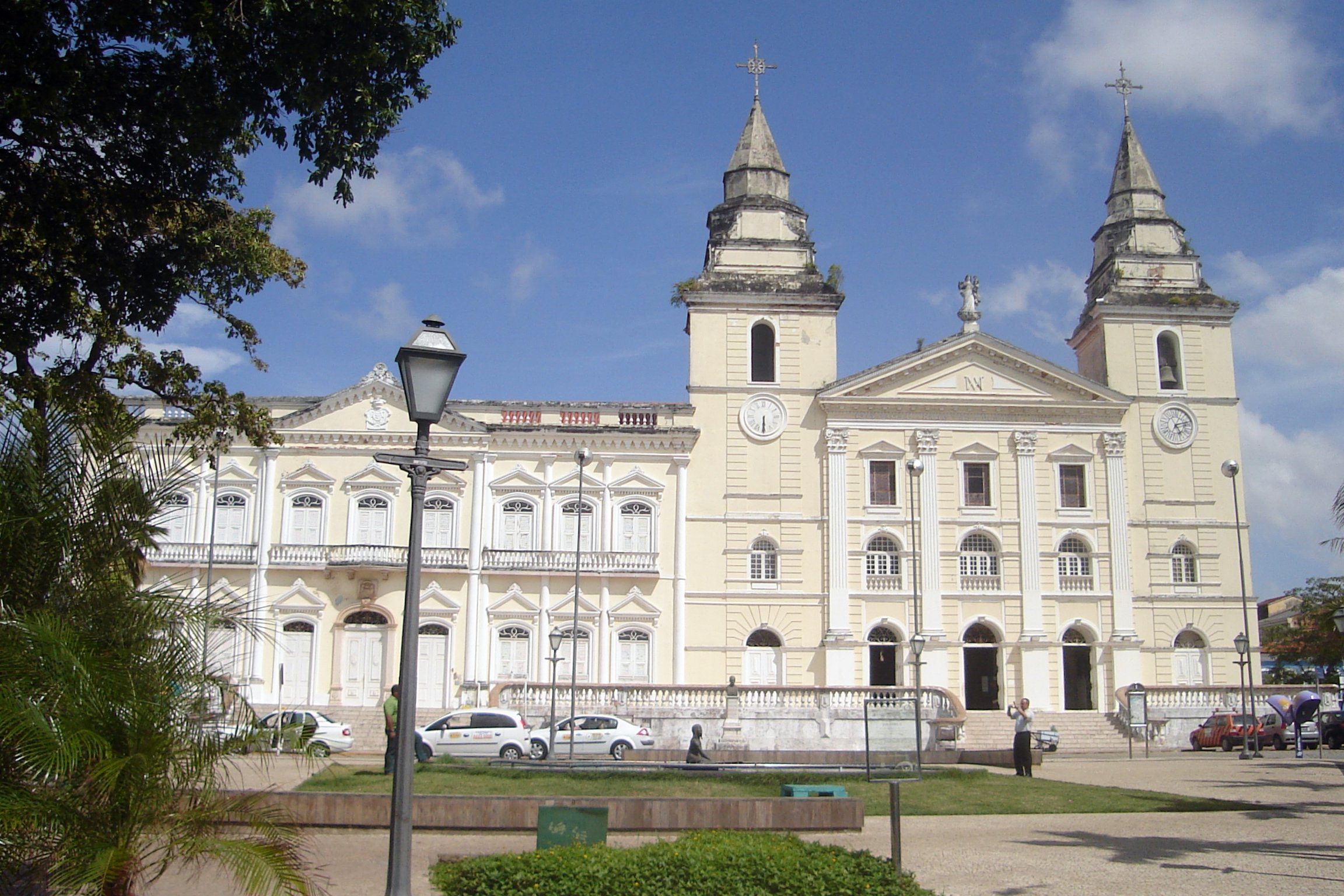 Main facade of São Luís Cathedral, in Maranhão State, Brazil